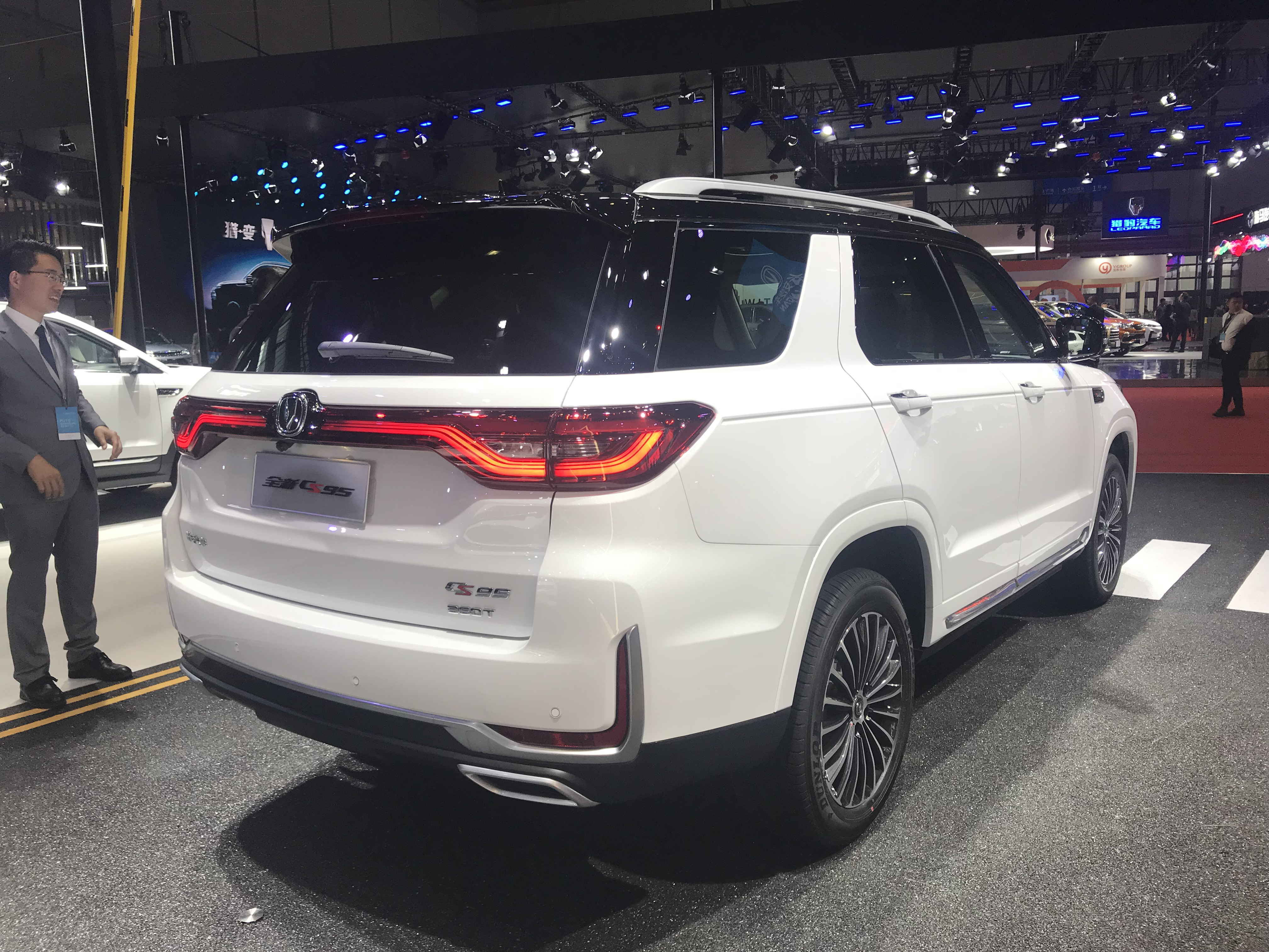 Changan CS95 facelift rear